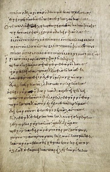 Greek manuscript, Babrius's fables of Aesop (British Library)